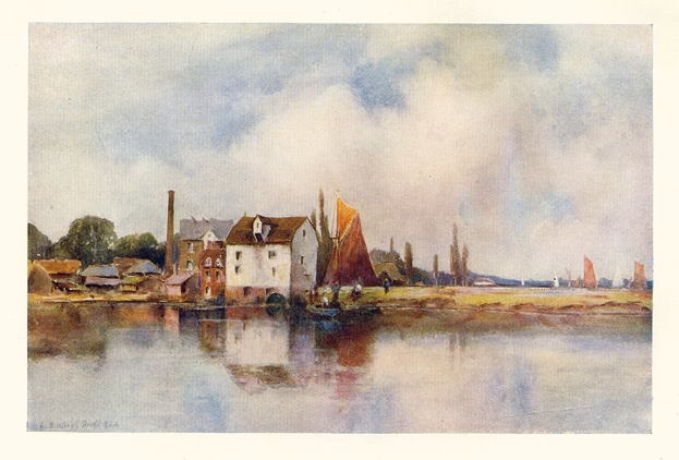 Stambridge Mill viewed across the Fleet